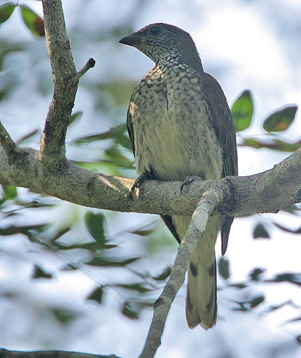 A ventral view of a perched bird. Image taken in Arabuko-Sokoke Forest.